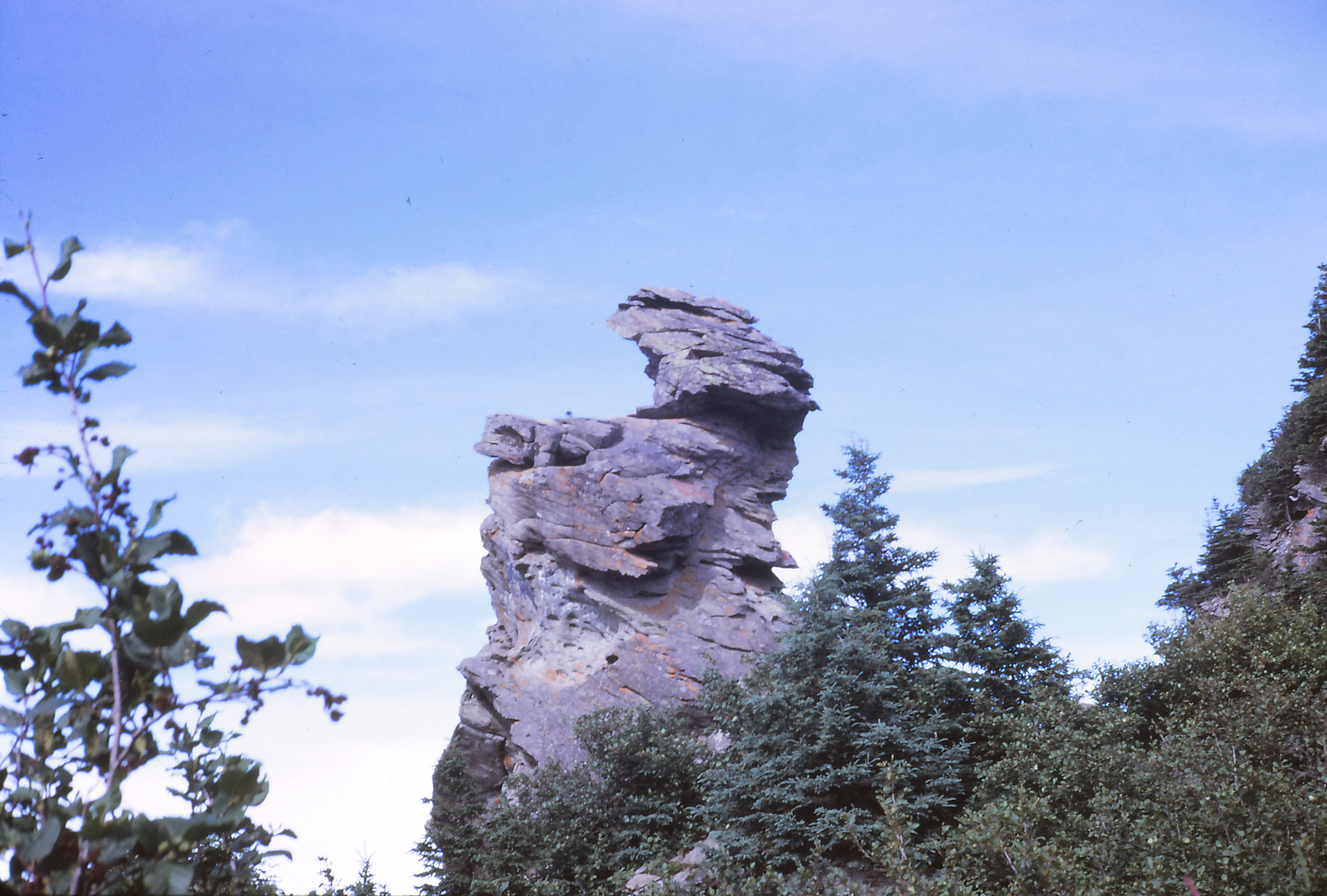 Rock looking like a cat in sitting position, located on the cape nearby the lighthouse of Cap-Chat, Gaspésie, Québec.